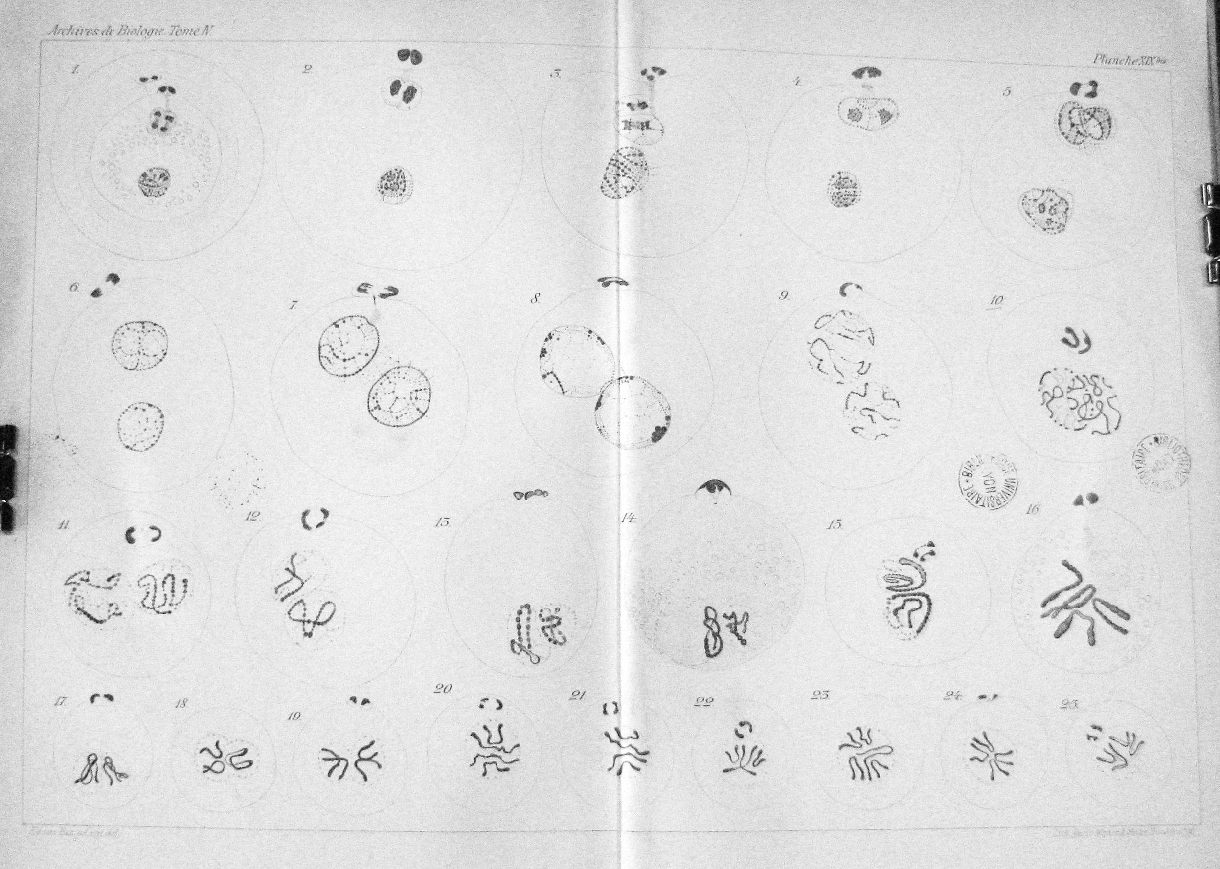 Edouard van Beneden-Archives de Biologie-1883-Panel XIXbis-End of the second pseudokaryokinetic division and formation of the four chromatic loops. 1-8: Expulsion of the second polar body and maturation of pronuclei. 9-13: Packing stage. 14-15: Formation of the four primary chromatic loops. 16-26: Various chromatic loops in the equatorial plane. 24: An additional long chromatic loop. 26: Splitting of chromatic loops.